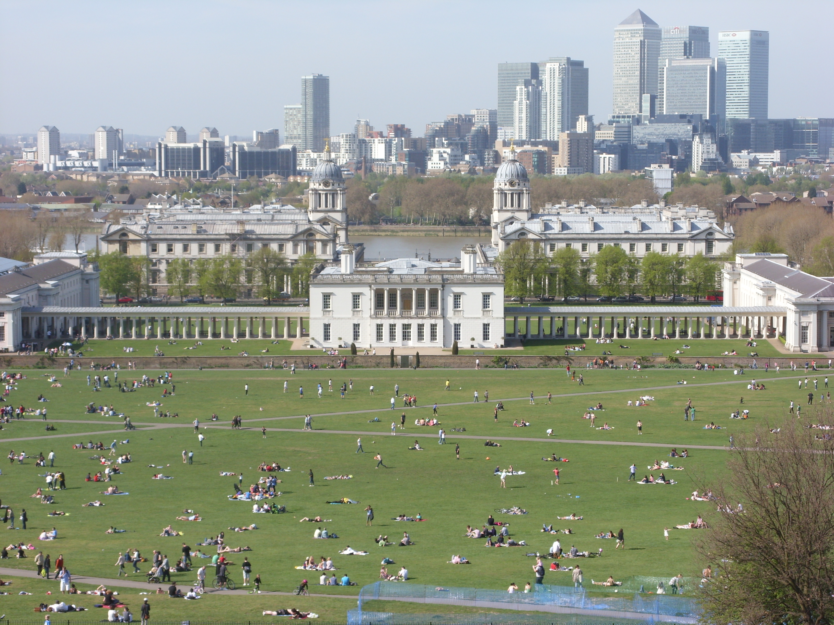 Greenwich Park, towards Canary Wharf